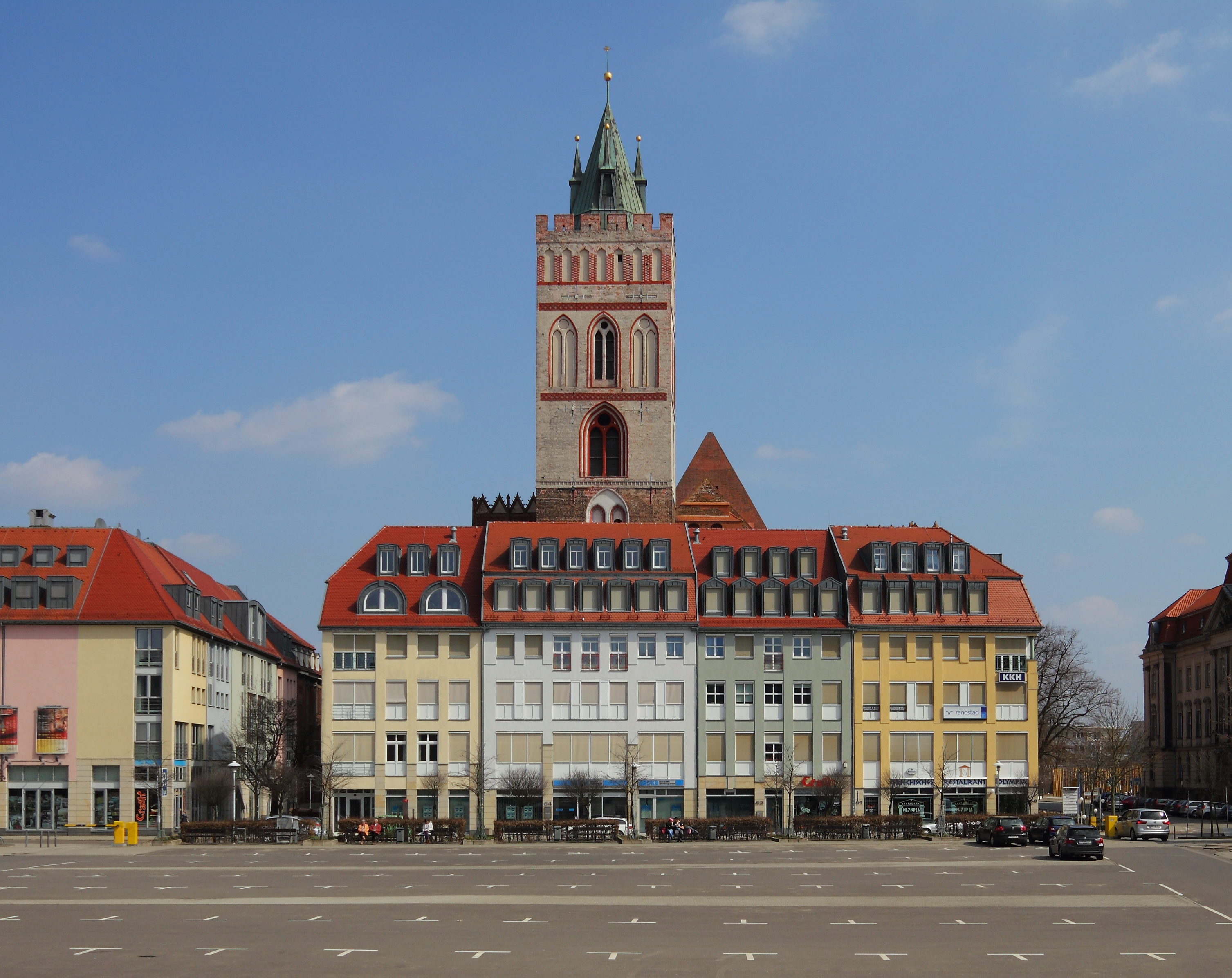 St. Mary Church in Frankfurt (Oder), Brandenburg, Germany